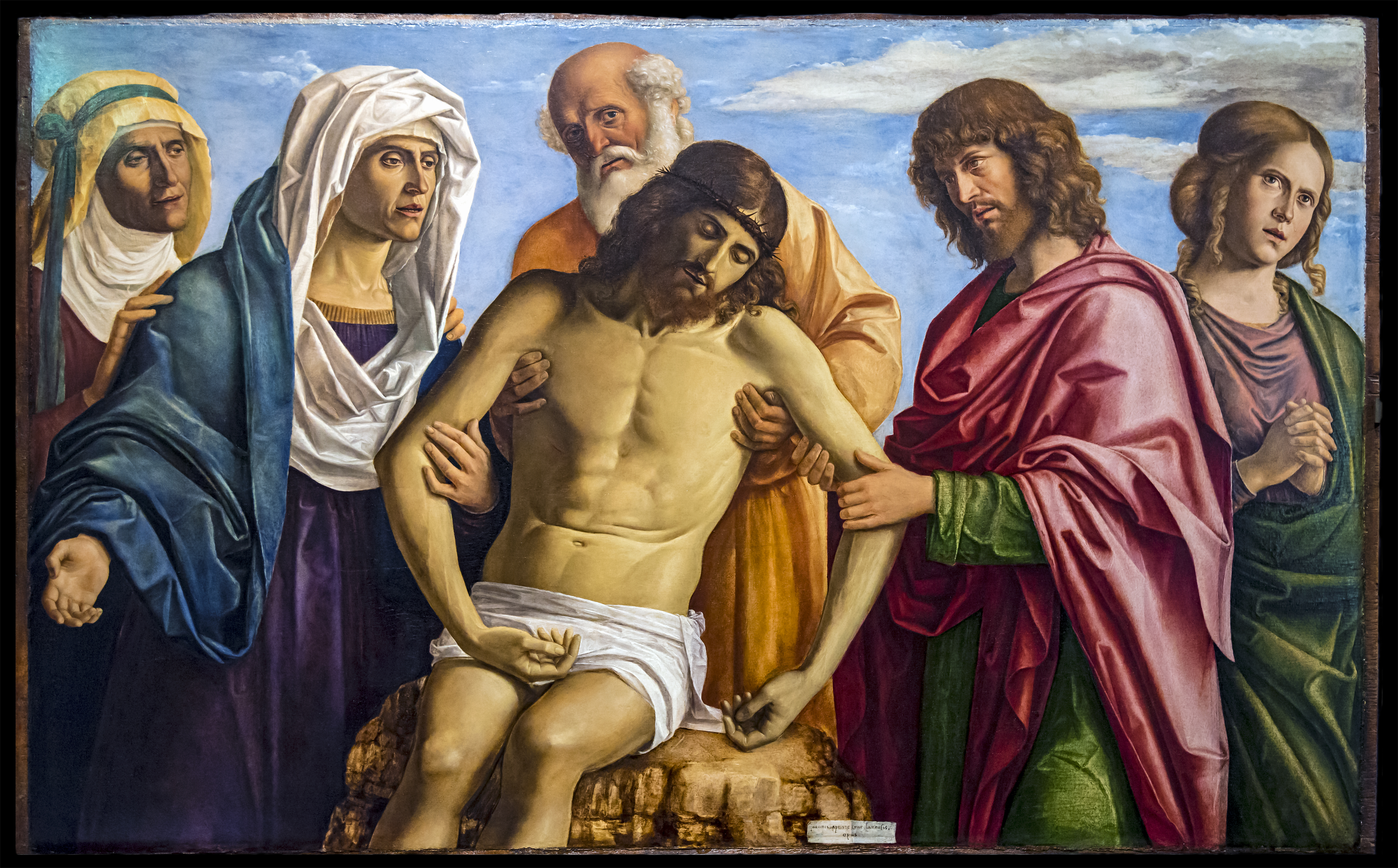 Christ in Pieta, supported by Madonna, Nicodemus and St. John the Evangelist with the Marys.